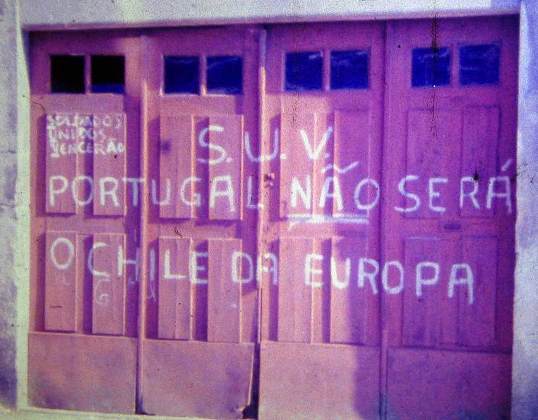 SUV - Soldiers United Win - Portugal is not the Chile of Europe